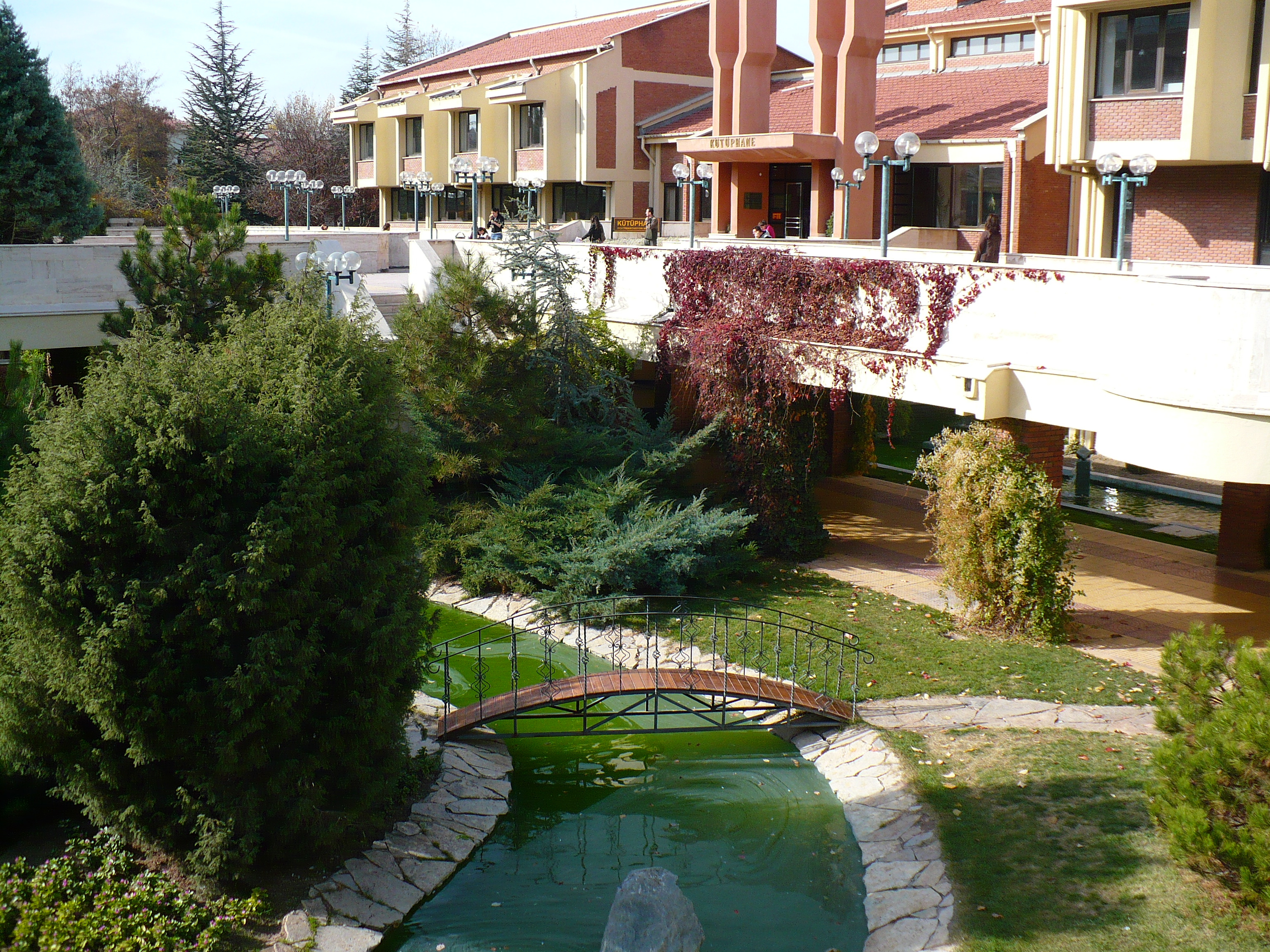 Anadolu University library building, front view